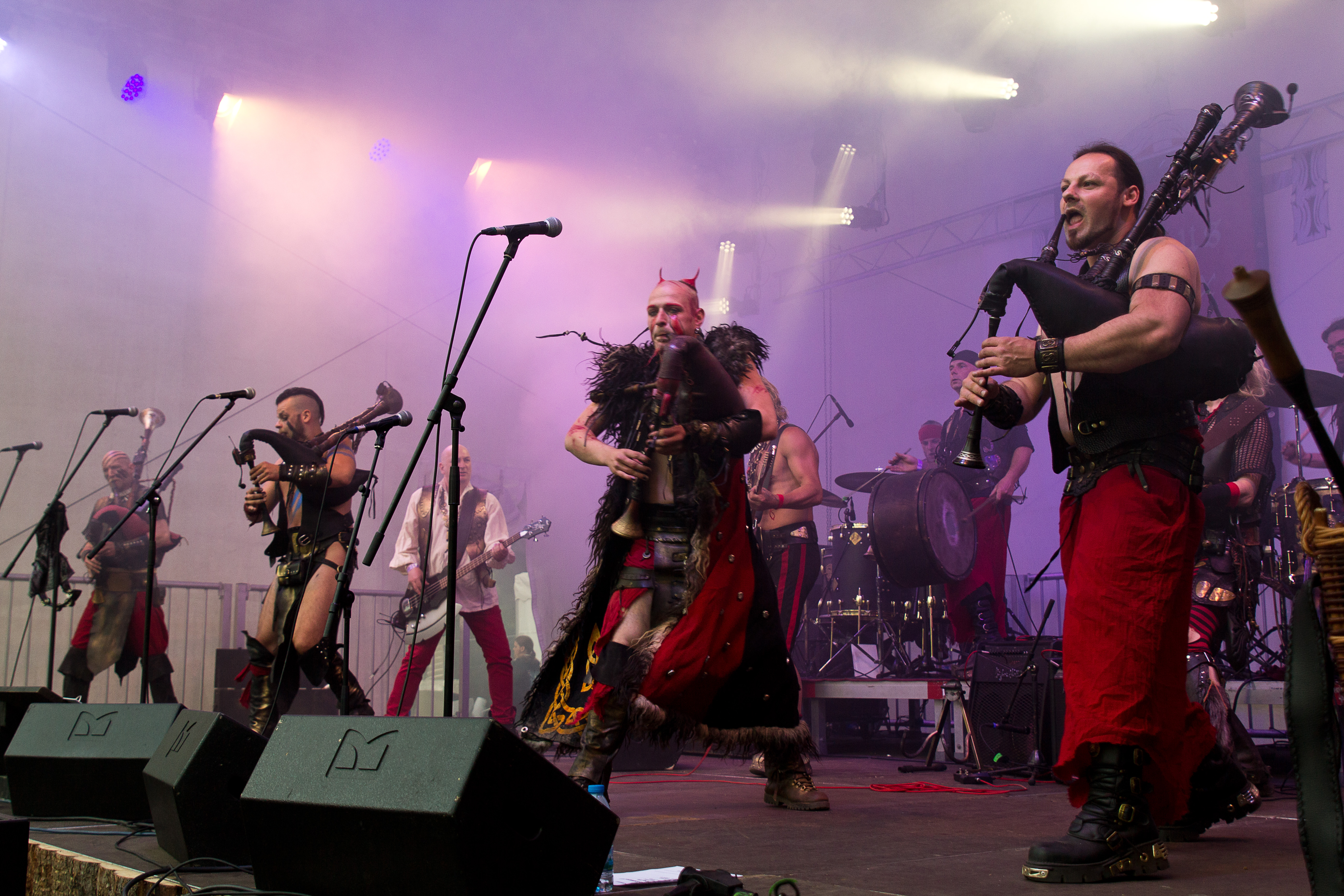 The German medieval rock band Cultus Ferox at the 25. Wave-Gotik-Treffen 2016 in Leipzig/Germany.